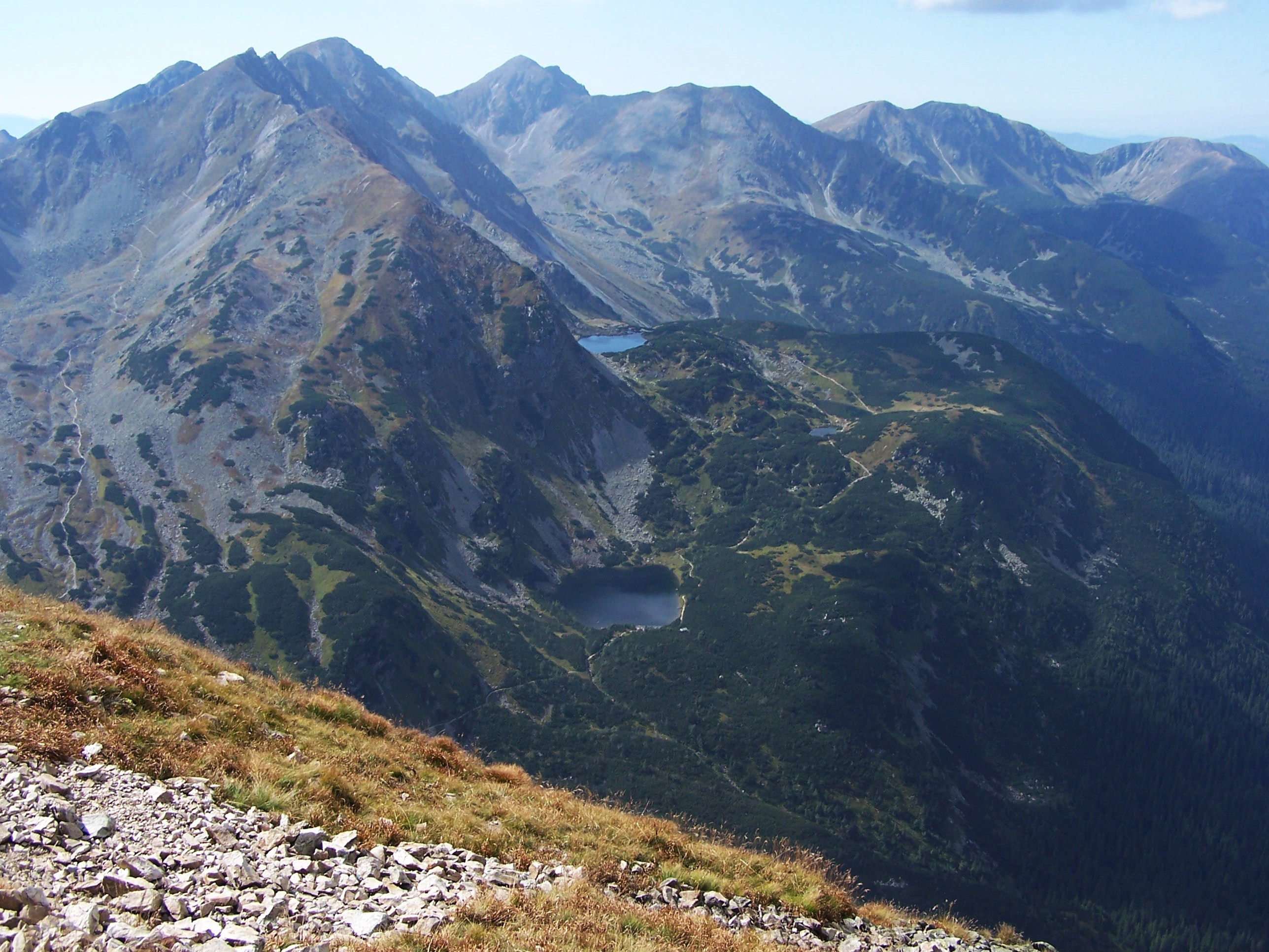 Stawy Rohackie (Roháčske plesá) - West Tatra Mountains